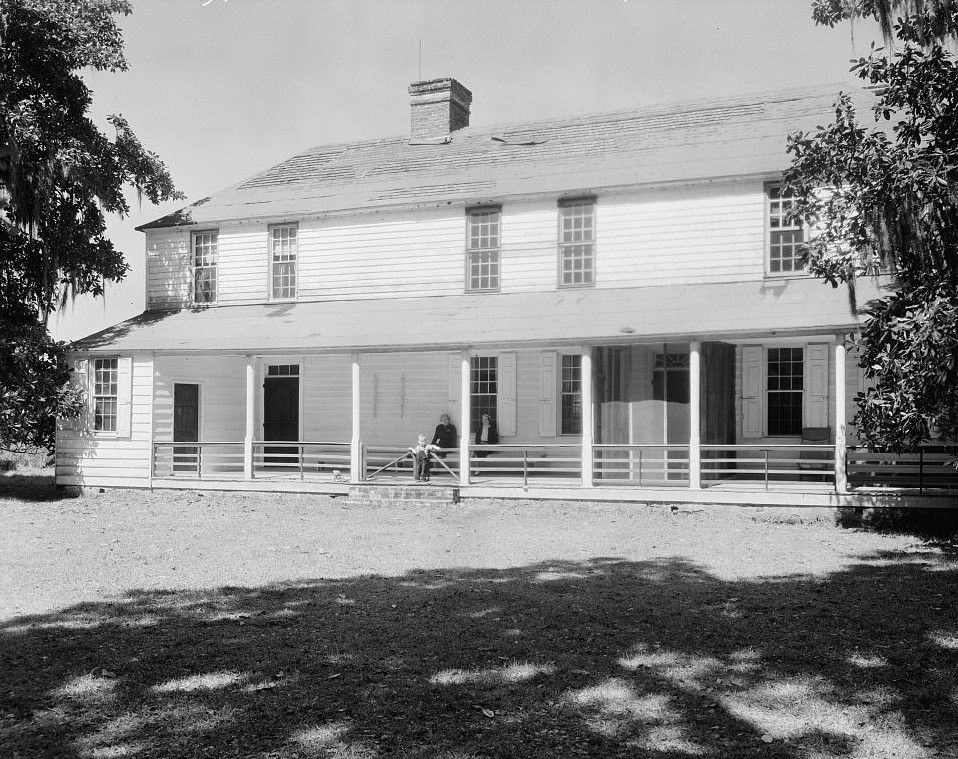 Middleburg, Huger vic., Berkeley County, South Carolina. From the Library of Congress' Carnegie Survey of the Architecture of the South.